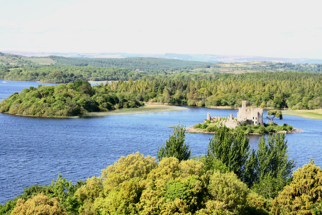 Lough Key from Above 2010